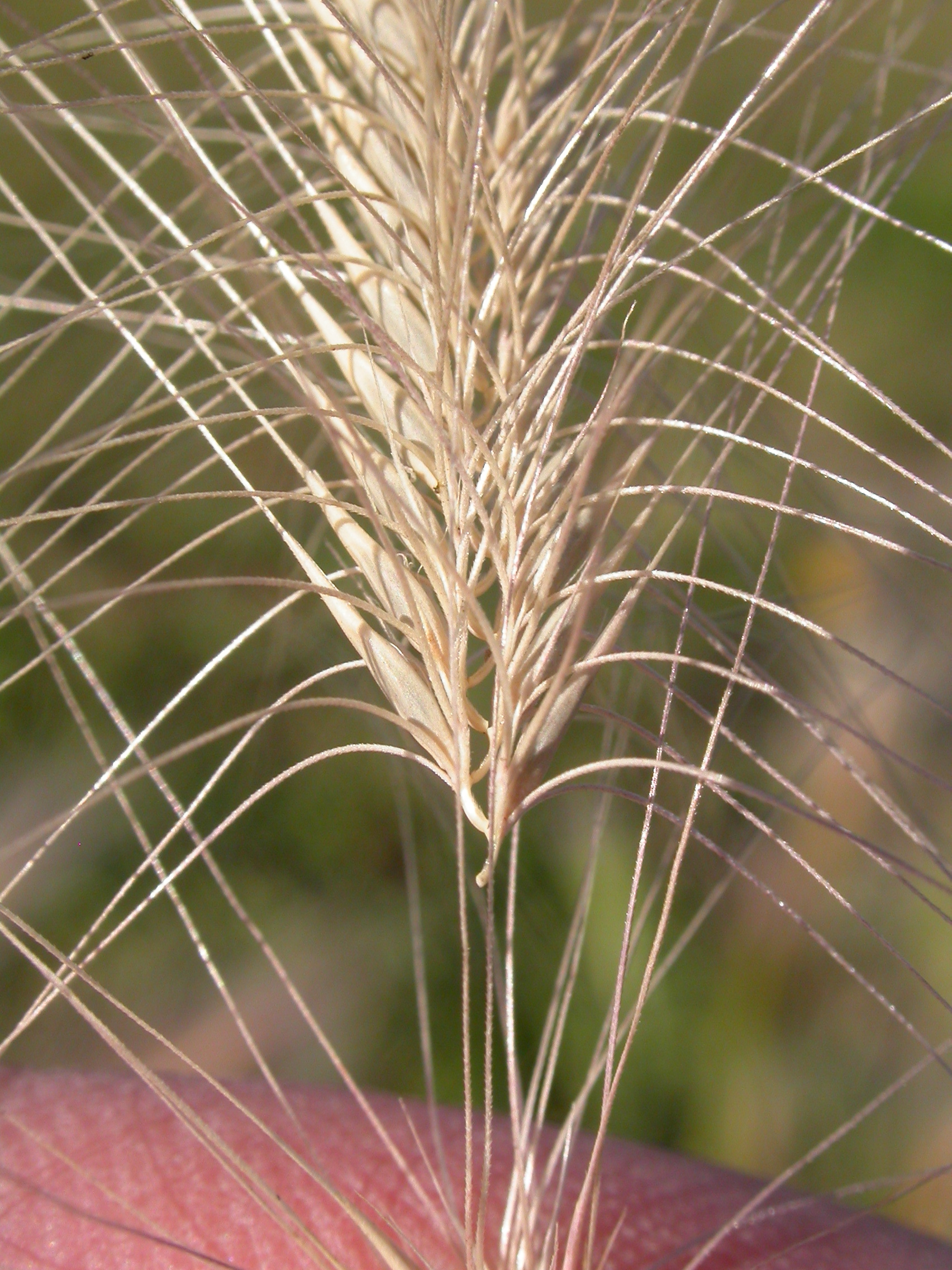 The flowering heads or spikes of Hordeum jubatum readily shatter or disarticulate by late summer.